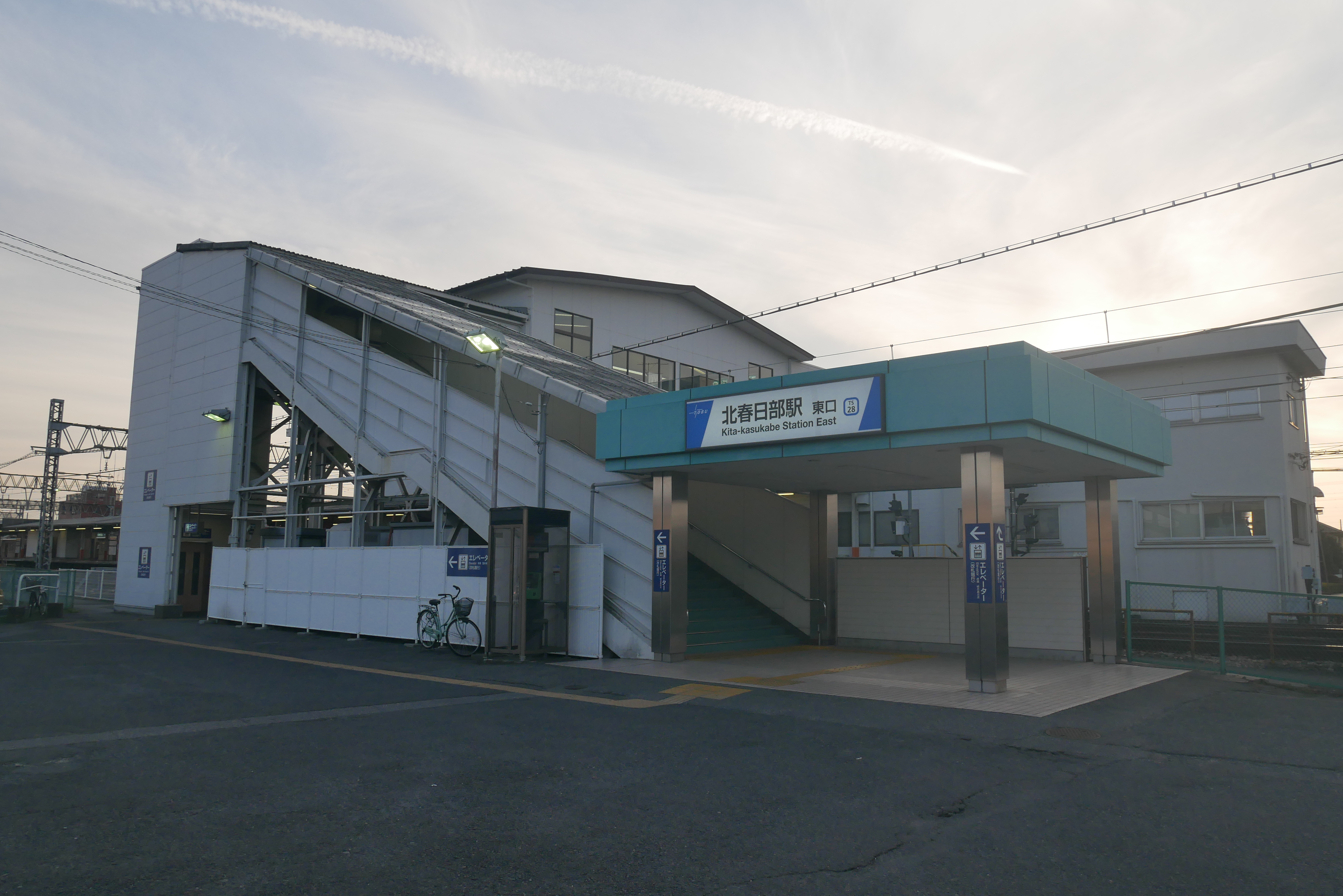 Kita-Kasukabe Station east exit (北春日部駅の東口)